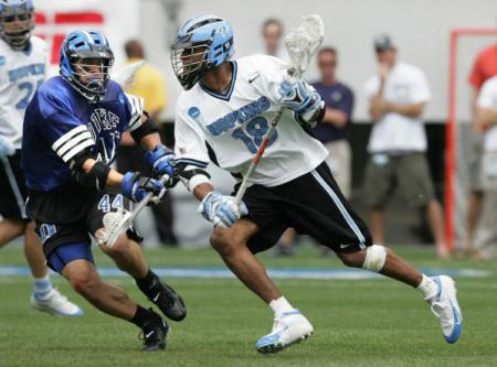 Lacrosse. Kyle Harrison playing for the Johns Hopkins Blue Jays driving against a Duke Blue Devils men's lacrosse player in Division I lacrosse.